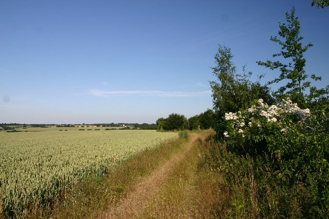 Bridleway to Stanningfield. Looking east from near the Lawshall Road end of this track.